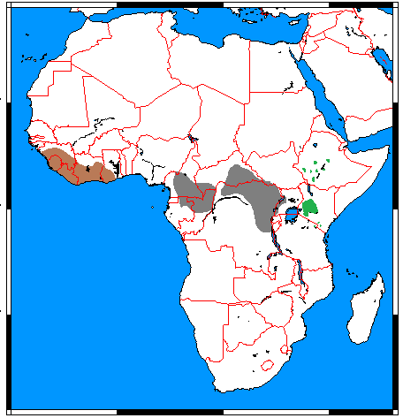 Range map for Giant Forest Hog (Hylochoerus meinertzhageni), made by Udo Schröter with help of Map depending on the range map at IUCN red list. Subspecies coloured with different colours by J.K Nakkila. Hylochoerus meinertzhageni ivoriensis Hylochoerus meinertzhageni rimator Hylochoerus meinertzhageni meinertzhageni